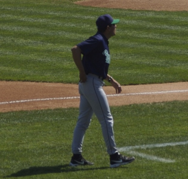 Ever Magallanes as a coach with the Cedar Rapids Kernels in 2007